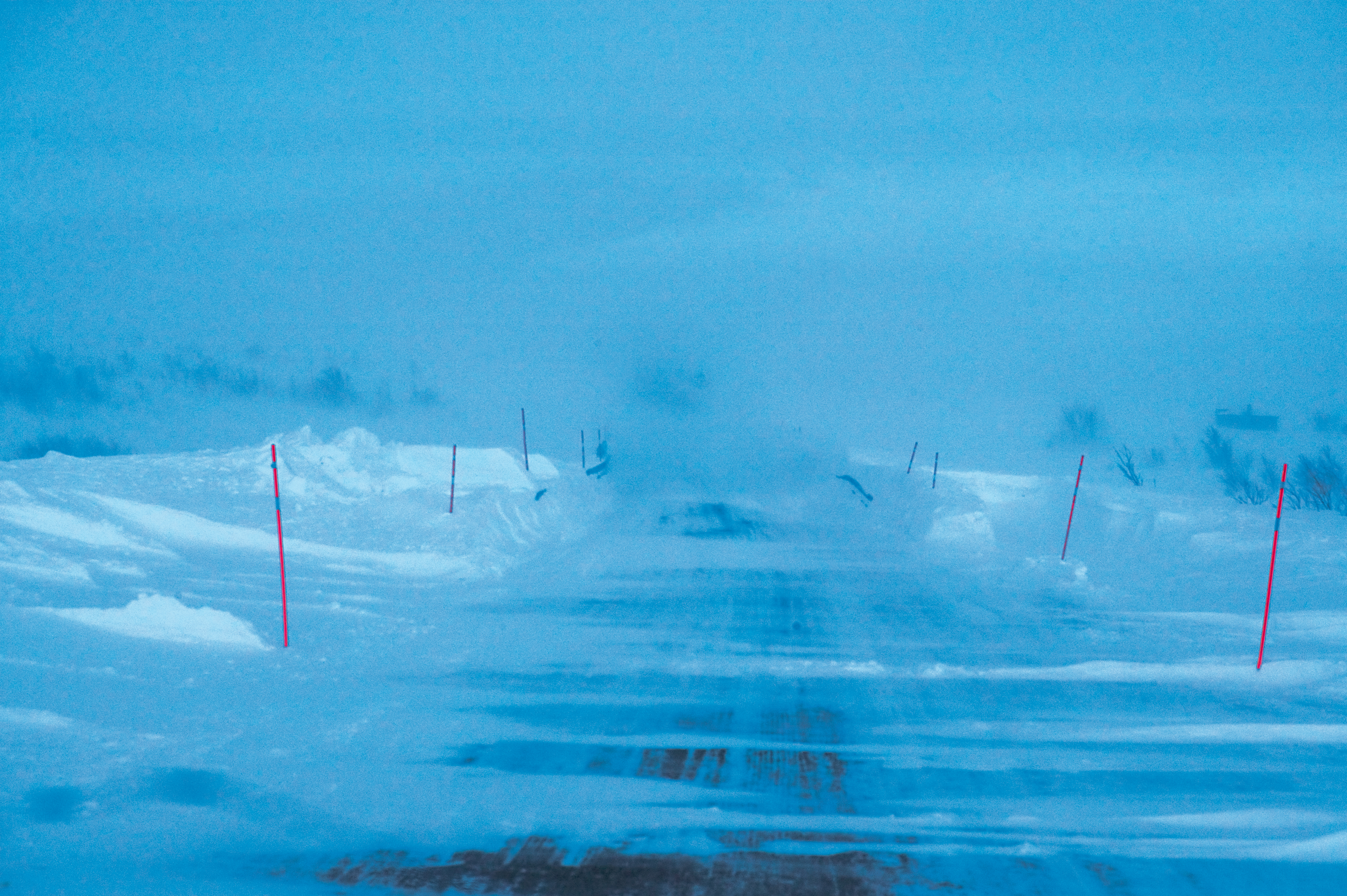 Snø Keywords: Ice and snow, Landscape, Norway Data-uid: f1b16bc2da4b36a6d32b9ce3ff905080